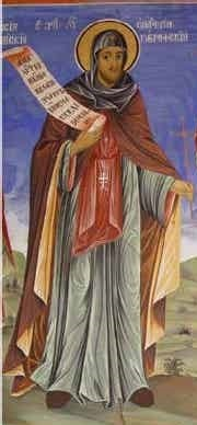 Archangels Chapel in Rila Monastery Saint_Onuphrius_and_Saint_Demetrius_of_Basarbovo_Fresco_in_the_narthex - 1845